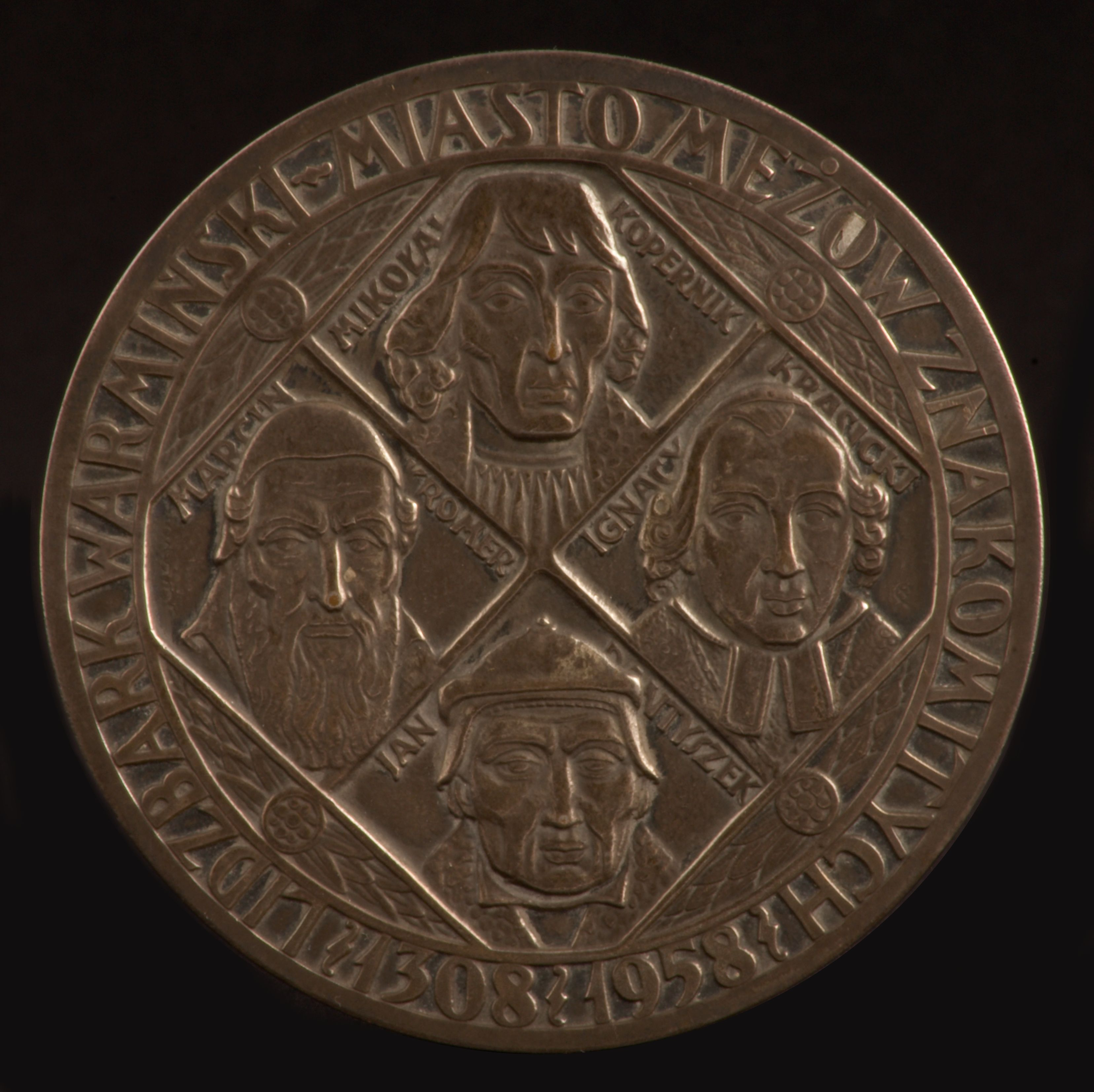 Obverse of medal Lidzbark Warmiński - The City of Great Men with images of Nicolaus Copernicus, Marcin Kromer, Johannes Dantiscus and Ignacy Krasicki. It was designed by Józef Gosławski in 1958 (650th-anniversary of town privileges of Lidzbark Warmiński).